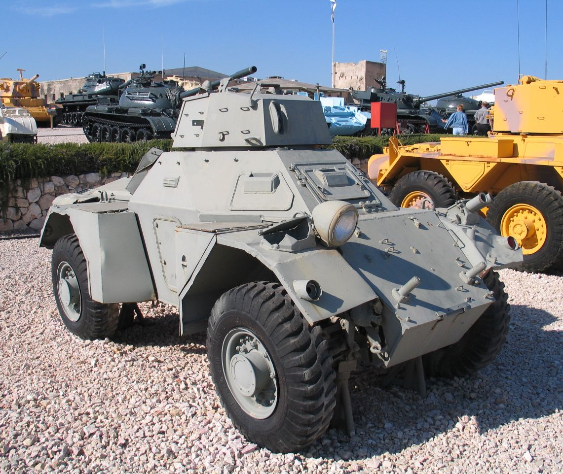 Description: Ferret Mk 2 armored car in Yad la-Shiryon Museum, Israel. 2005. Source: Photo by me, User:Bukvoed.